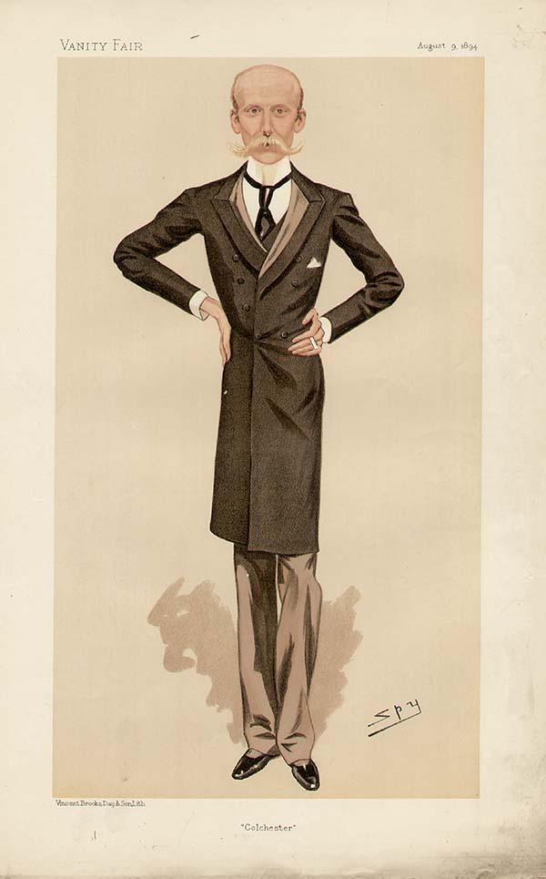 Statesmen No.639: Caricature of Capt Herbert Scarisbrick Naylor-Leyland MP. Caption reads: "Colchester"